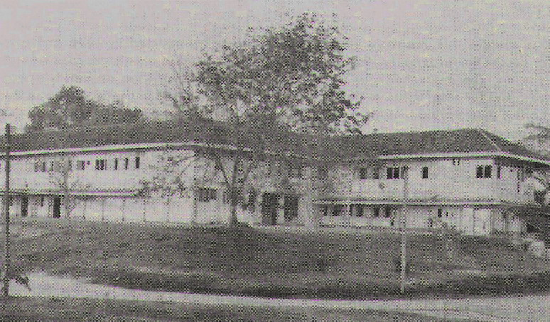 The Wooden Block, 1929 The building still stands majestically on the little hillovk, one of a kind in the country The Wooden Block, 1929 The building still stands majestically on the little hillovk, one of a kind in the country